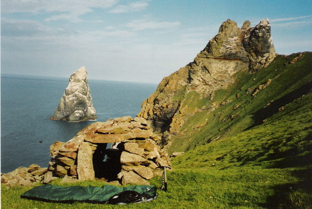 Cleitein McPhaidein, Boreray Wild camping on Boreray looking through cleit to Stac Lee - 18 June 2007